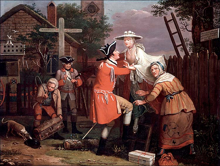 Modern Love:The Elopement, oil on canvas